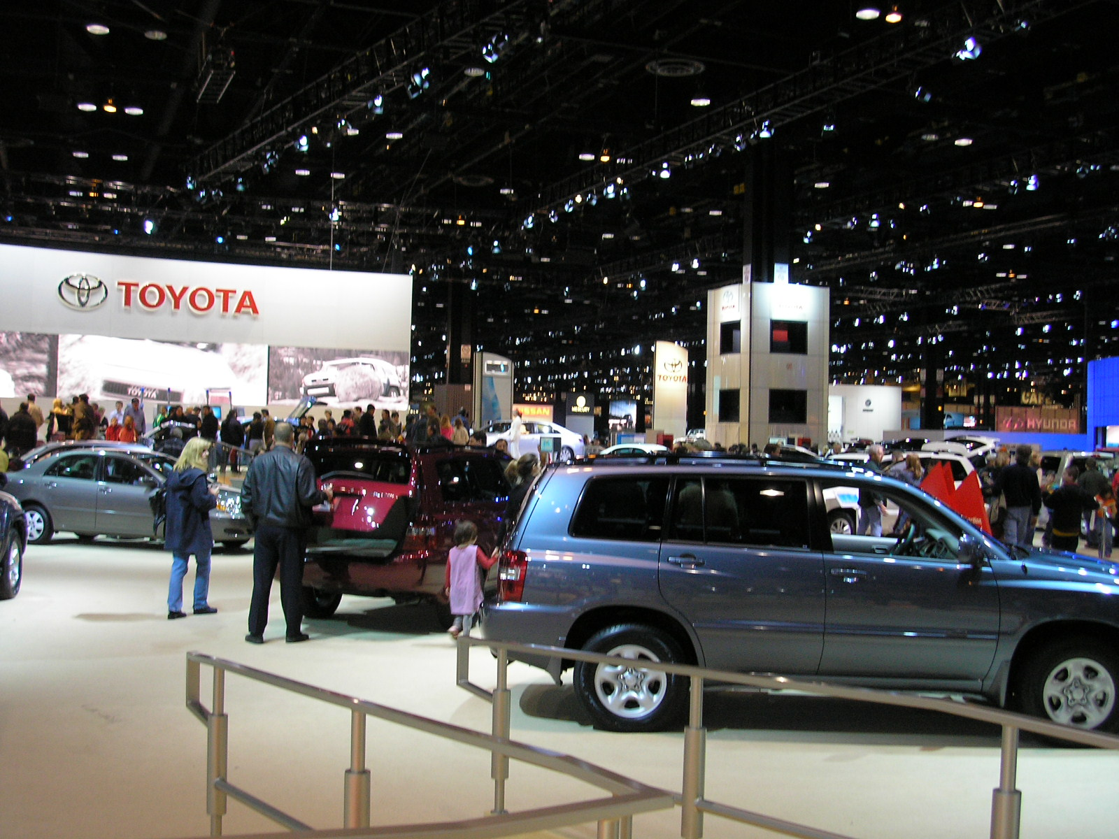 2006 Chicago Auto Show Photo taken by Slo-mo